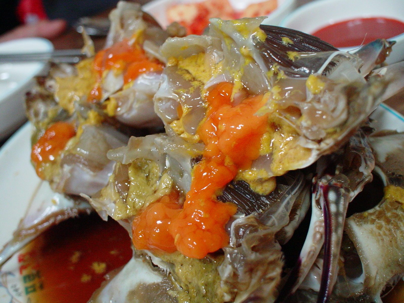 Korean seafood, Gejang